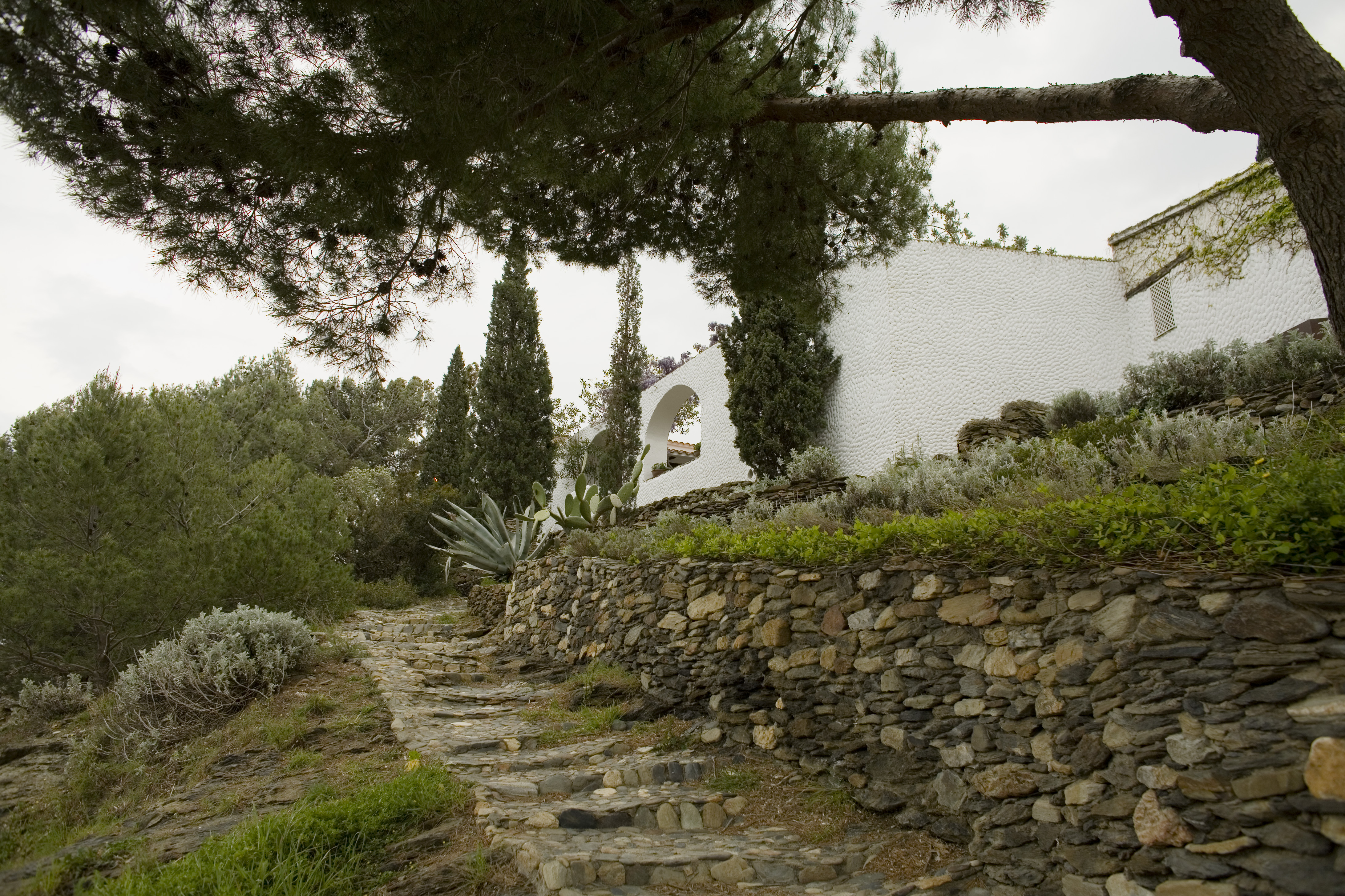 Trail behind the back of El Bulli